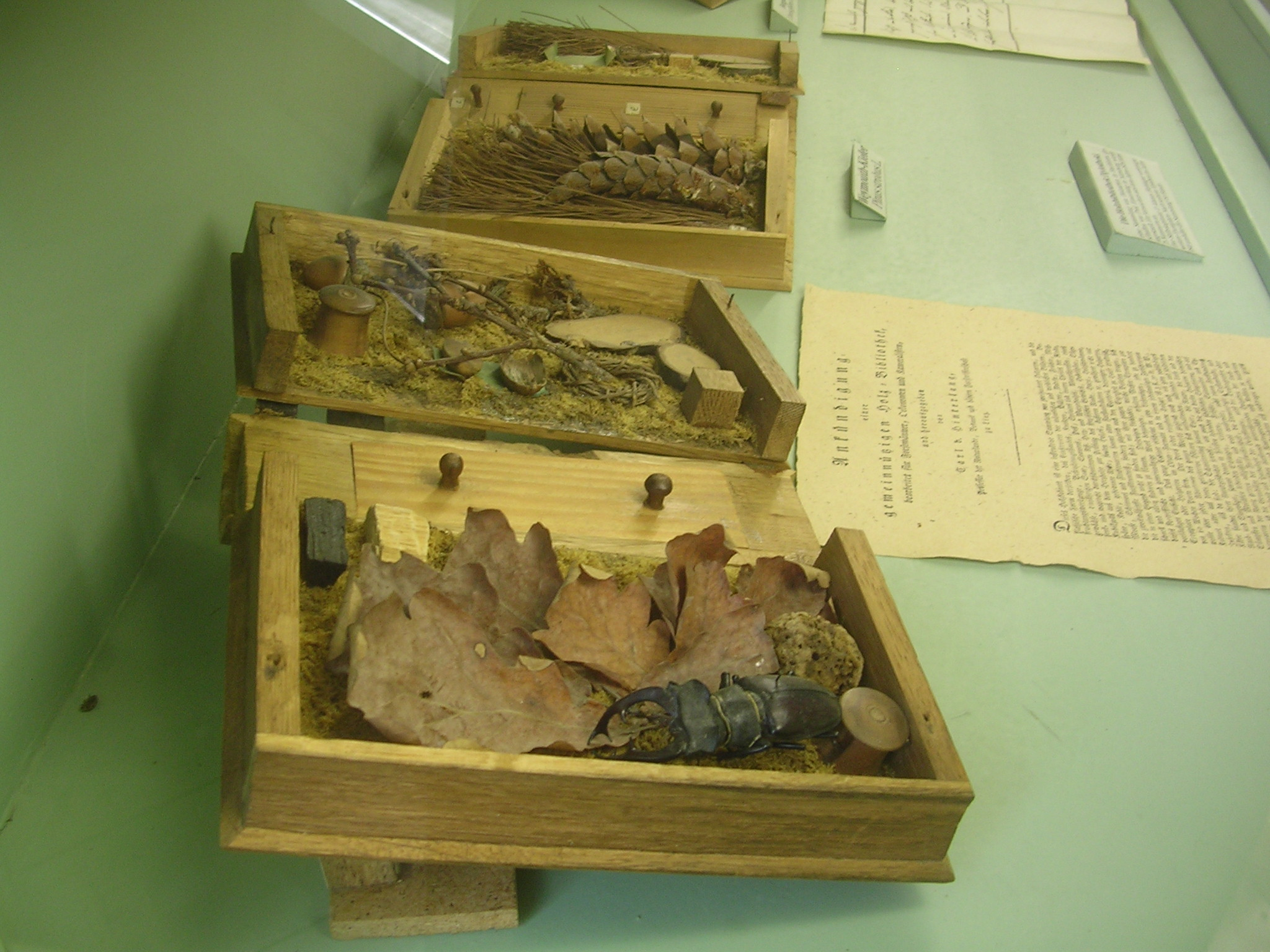 Part of the "Xylothek" in the Observatory of Kremsmünster